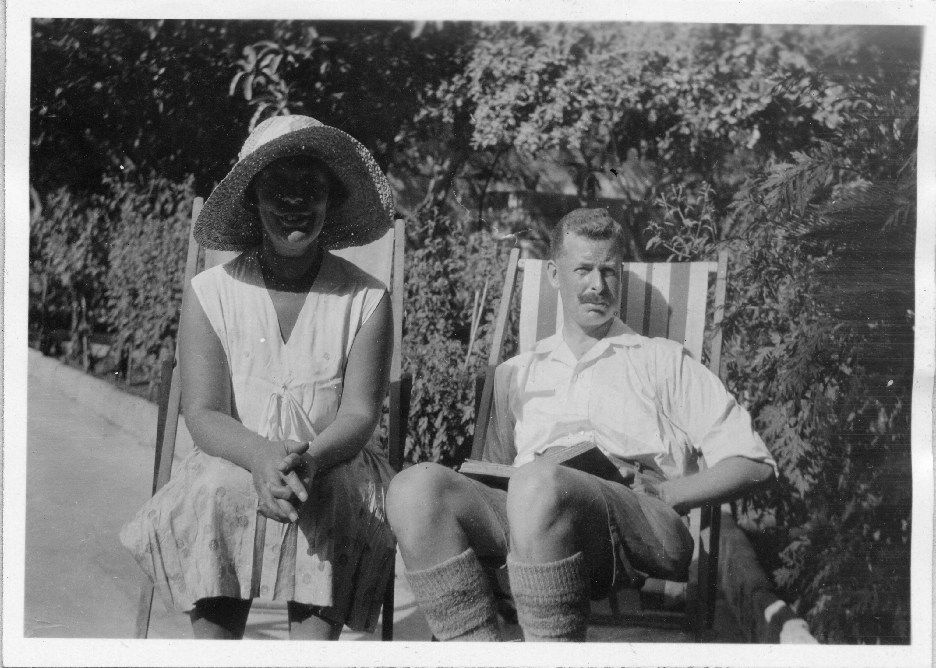 This photograph from a 1932 handmade New Year's greeting card shows nutritionist Annie Barbara Clark Callow with her husband, the physicist E.H. Callow, who worked at the Low Temperature Research Station and the Department of Scientific and Industrial Research, Cambridge University.